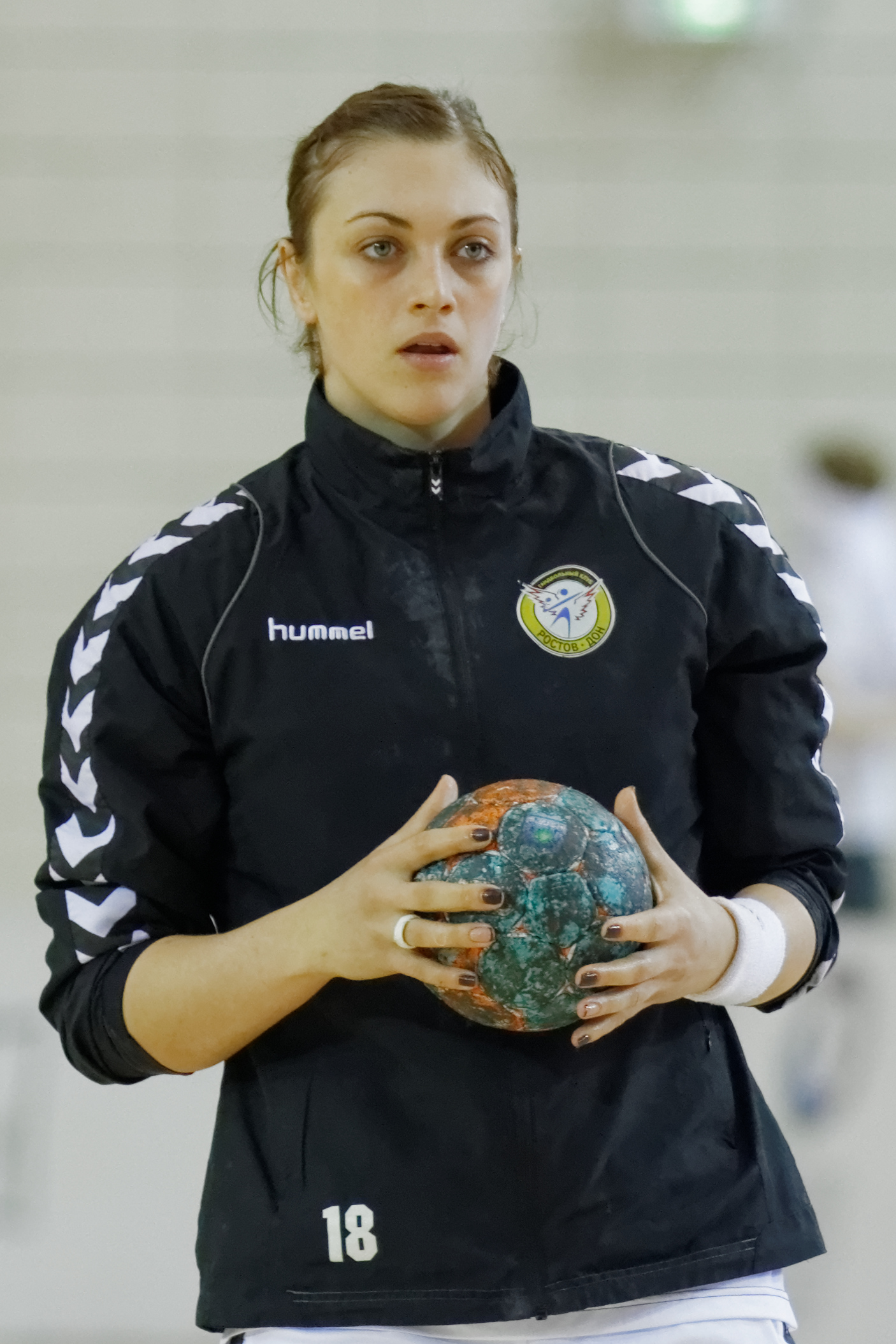 Semi-final EHF Cup Winners' Cup. Issy Paris Hand - Rostov-Don, 5 April 2013. Anna Sen (Rostov Don).